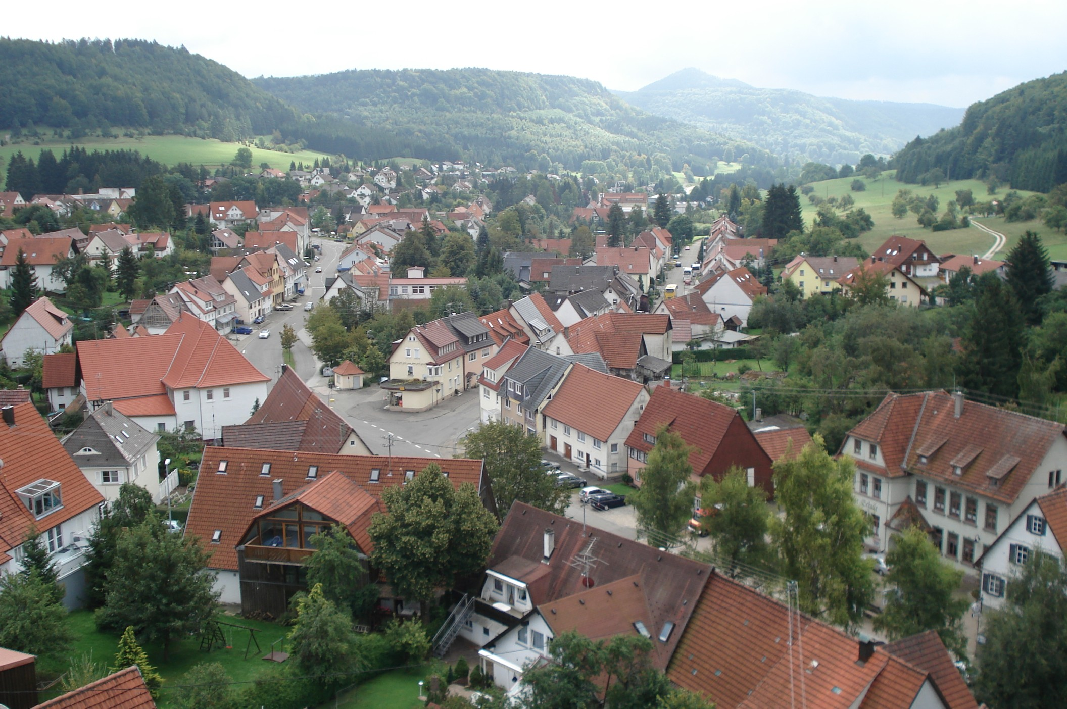 Panorama view over Albstadt Pfeffingen